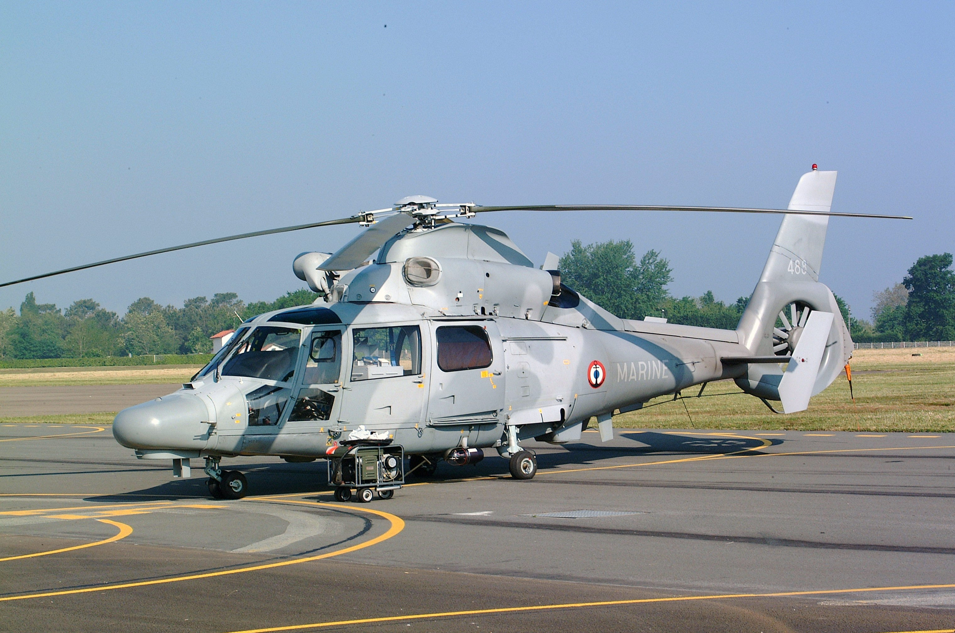 French Navy Panther